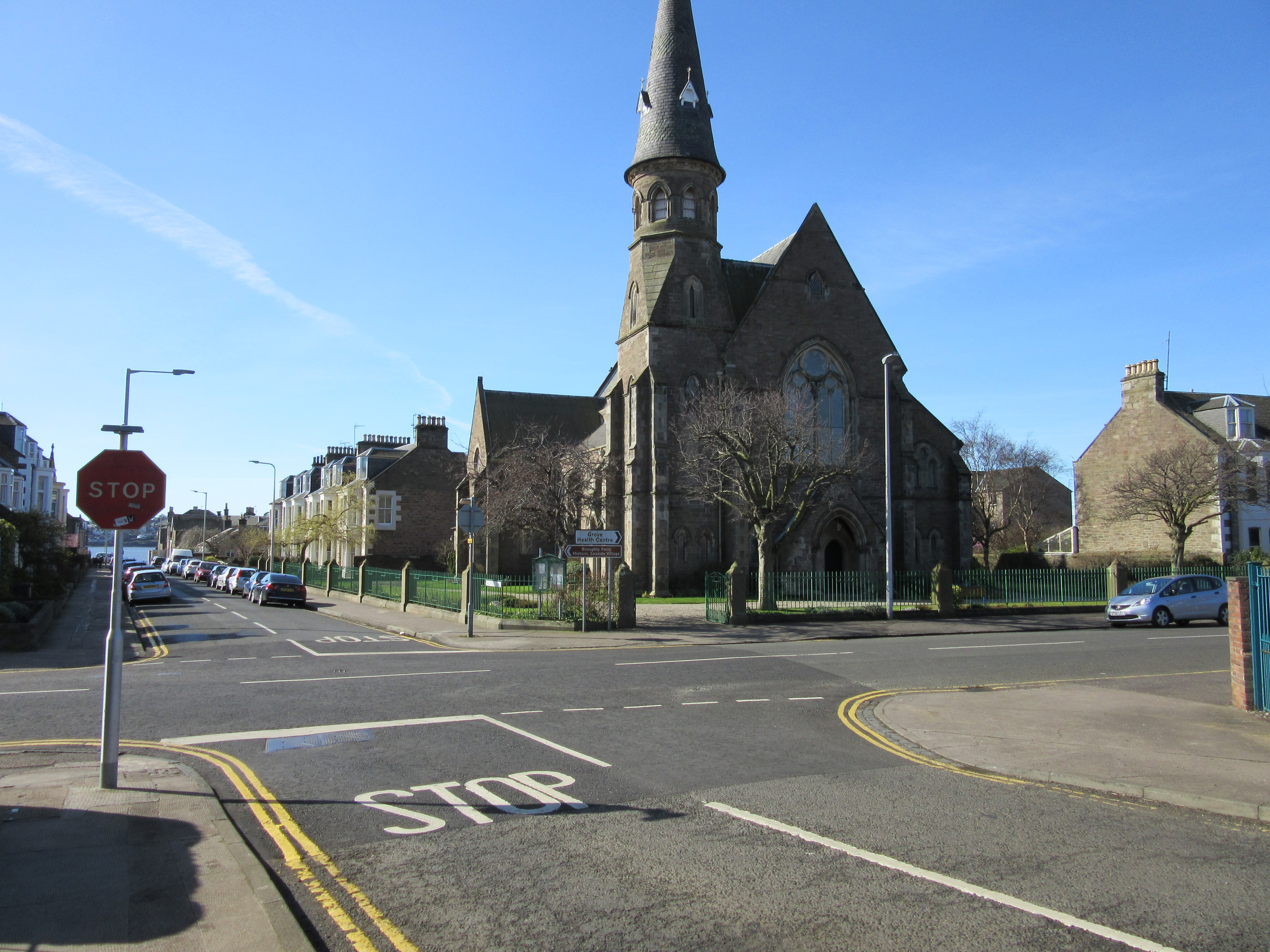 St. Stephen's and West Church, Broughty Ferry